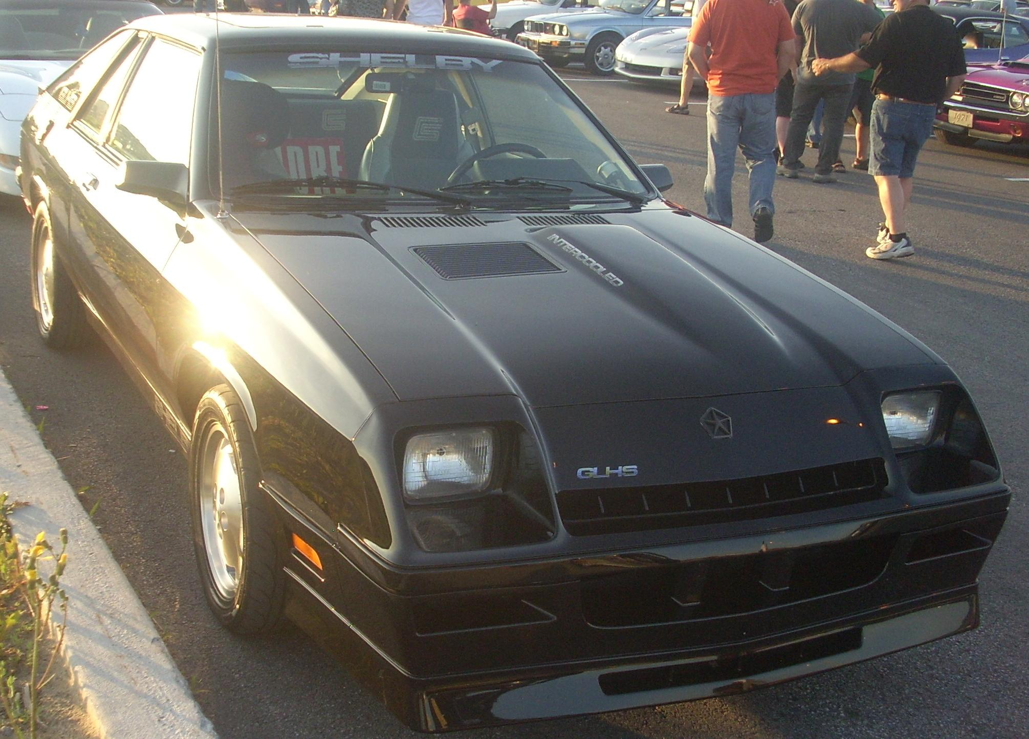 1987 Shelby GLHS photographed in Laval, Quebec, Canada at Centropolis Laval.